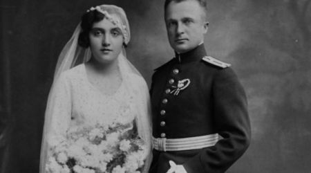 Dimitar Tsvetkov and his wife